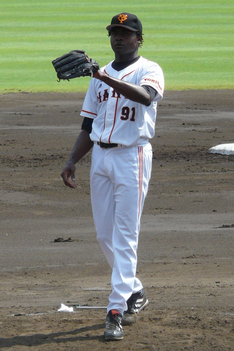 Wirfin Obispo, pitcher of the Yomiuri Giants, at Yomiuri Giants Stadium.